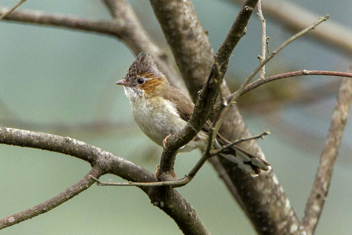 Striated Yuhina - Bhutan_S4E1473